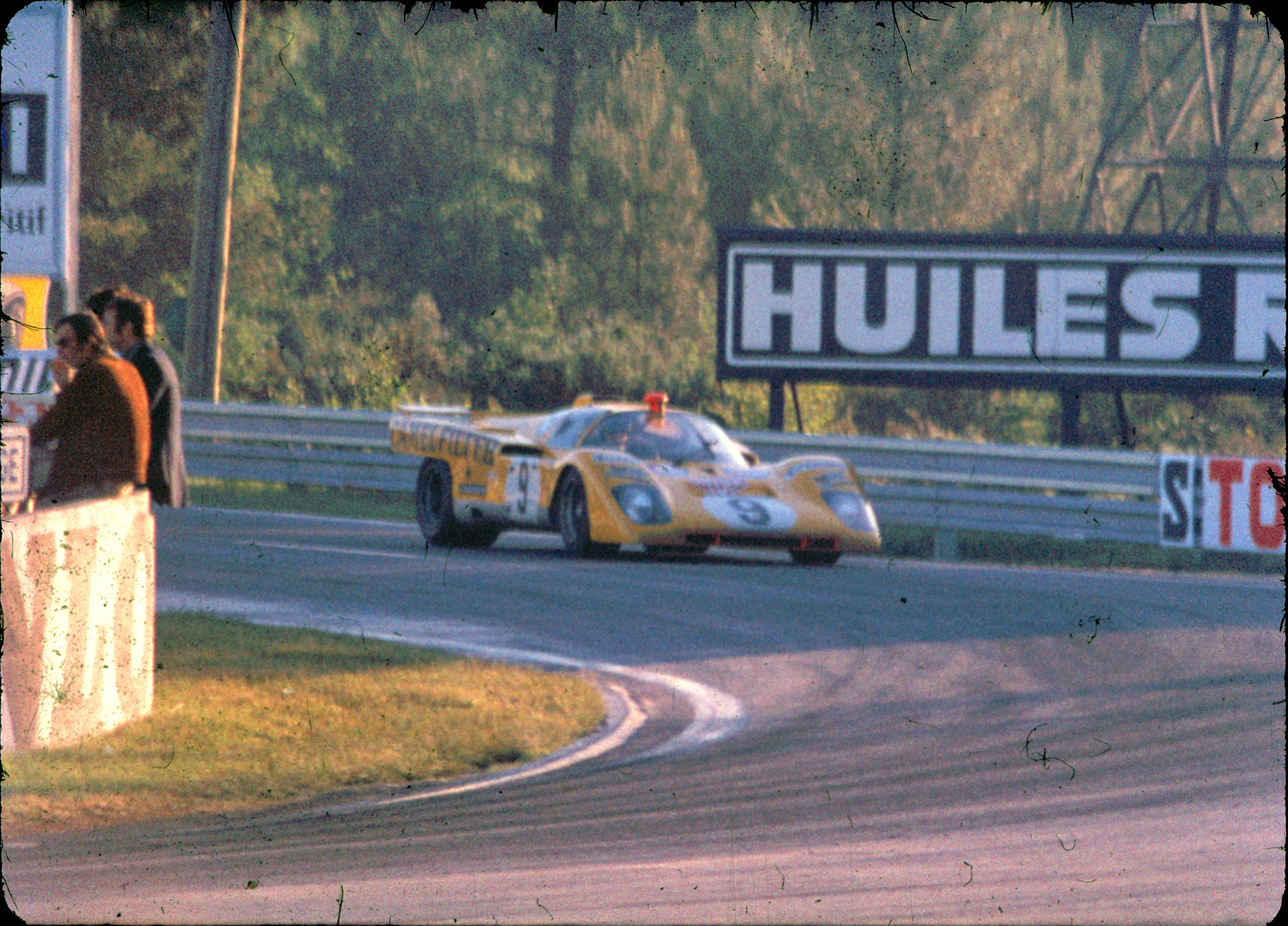 Ferrari 512 M N°9 Ecurie Francorchamps Technique : Catégorie : Sport Moteur : V12 Ferrari 4993 cm3 Pneus : Firestone Pilotes : Hughes De Fierlandt Alain De Cadenet